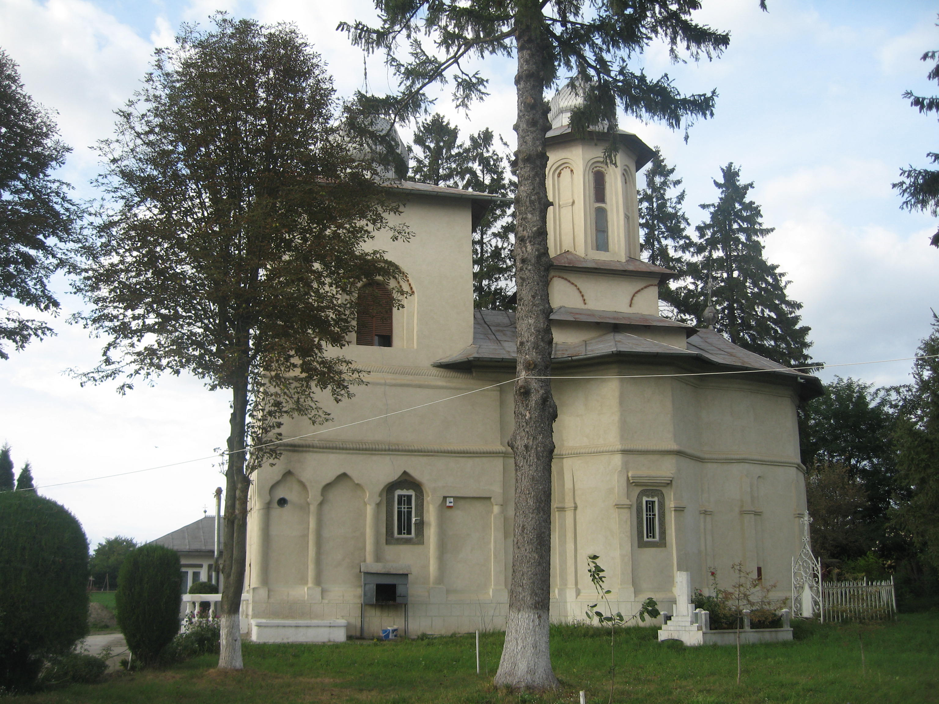 Biserica Adormirea Maicii Domnului din Plopeni